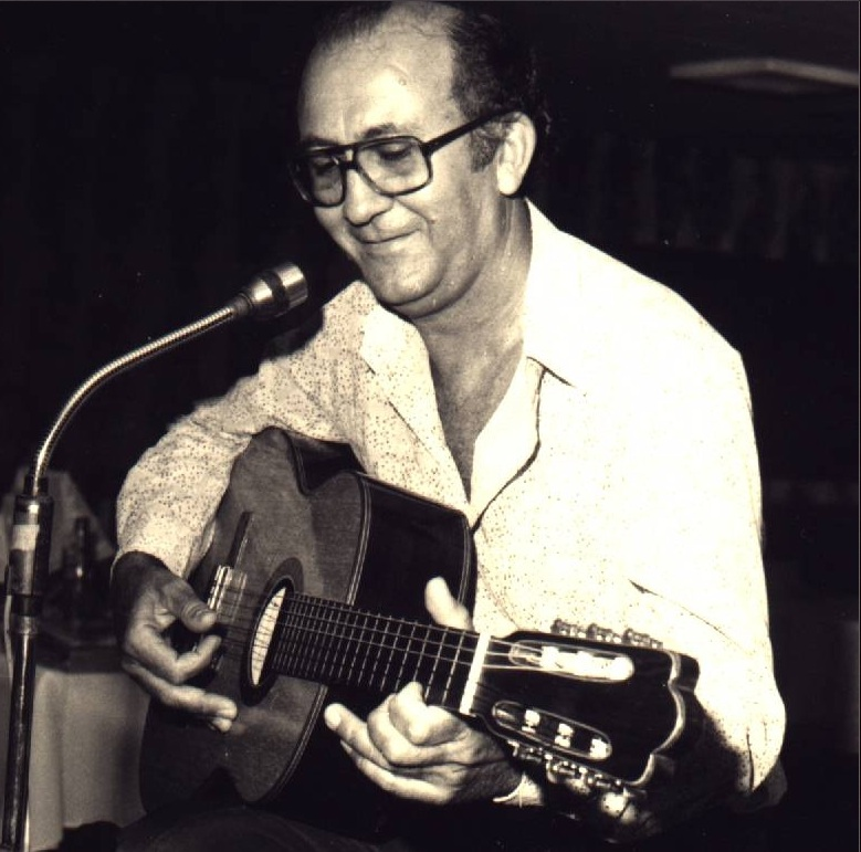 Luiz Ramalho playing